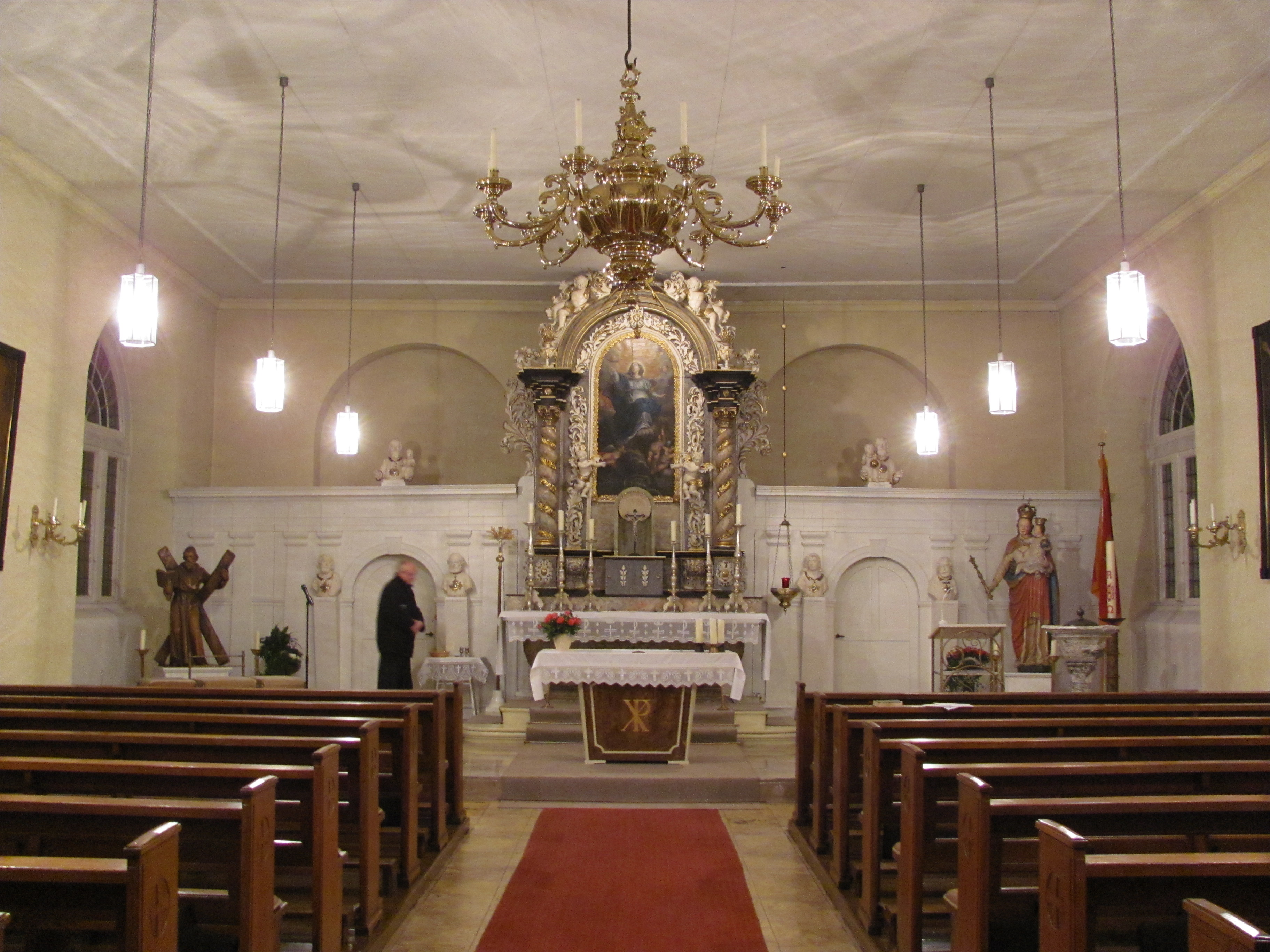 St. Andrew's Church, Holle-Sottrum, Lower Saxony, Germany.